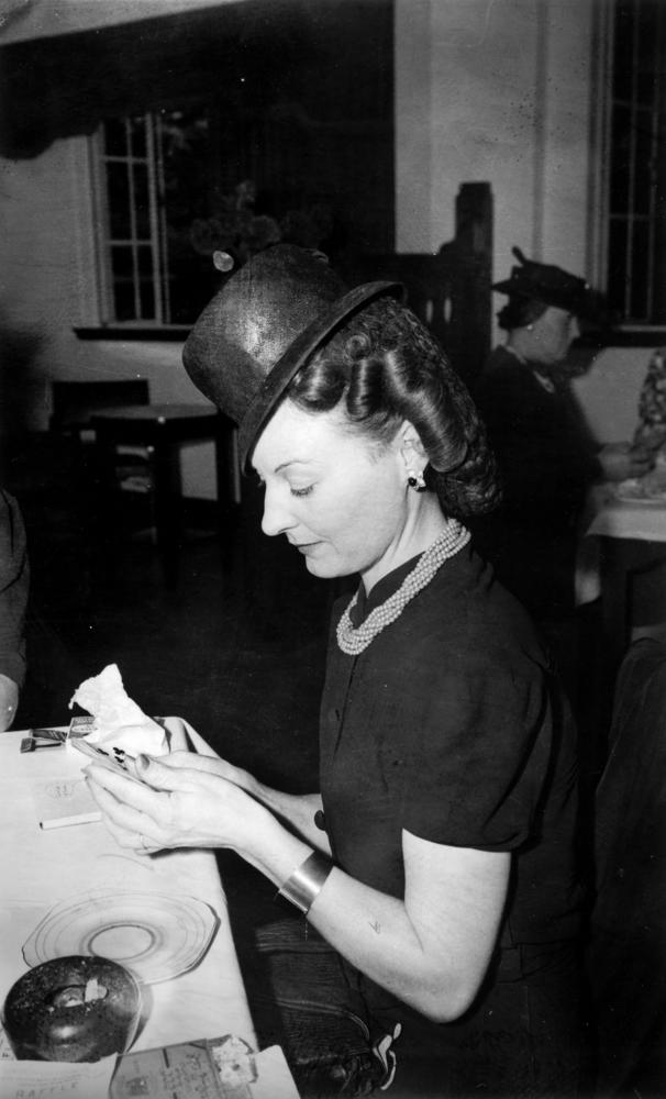 Playing cards at the Victoria Park Golf Associates' party, 1940. Mrs S. Solomon, wearing a bowler hat with a snood, playing cards for charity at the Victoria Park Golf Associates' party. (Description supplied with photograph).